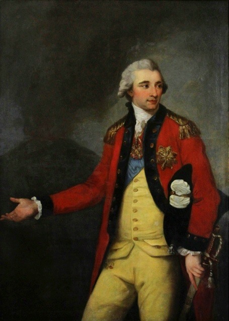 Portrait of Stanisław Poniatowski (1754–1833)